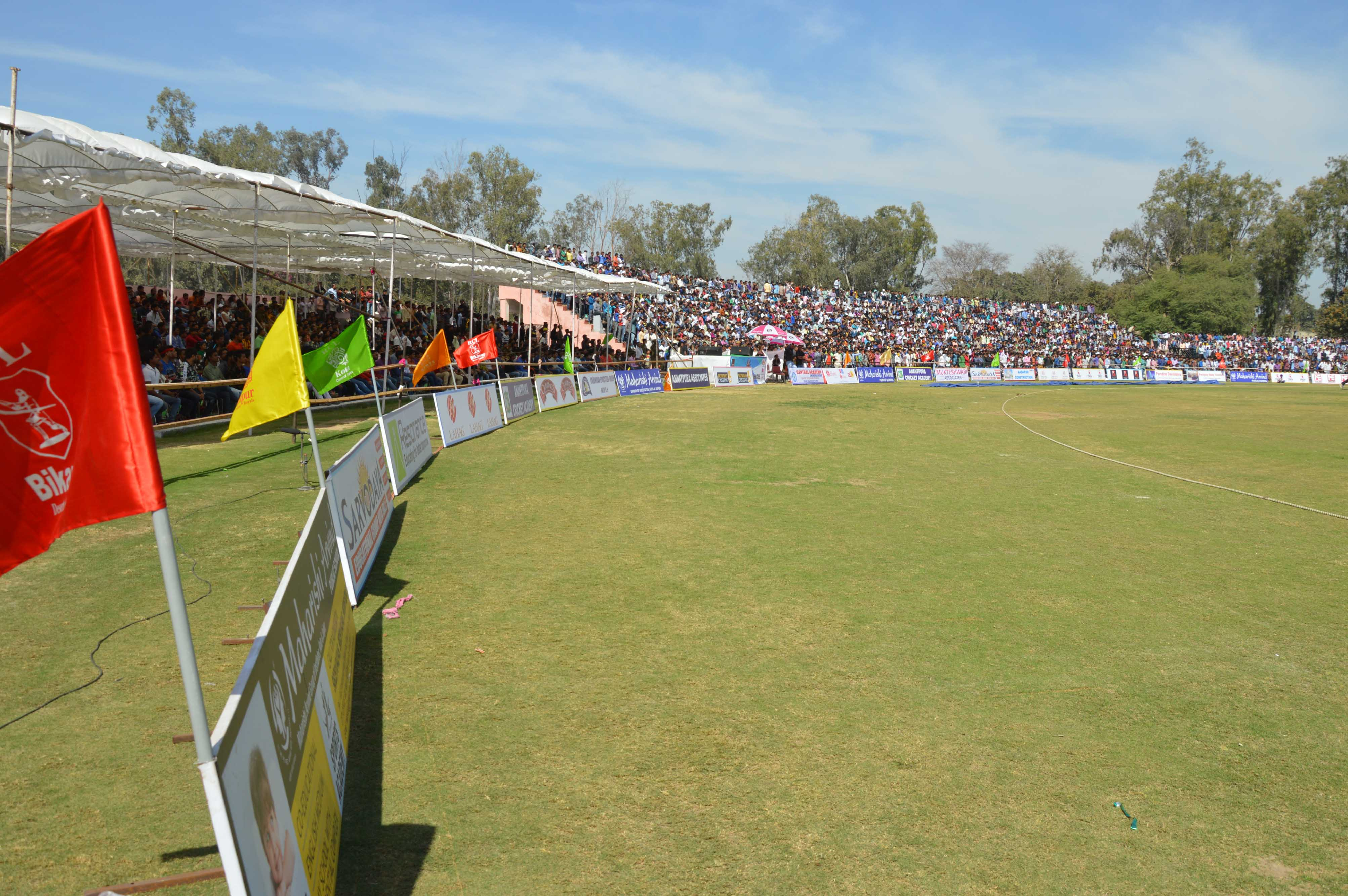 Crowd at International Stadium, Kota